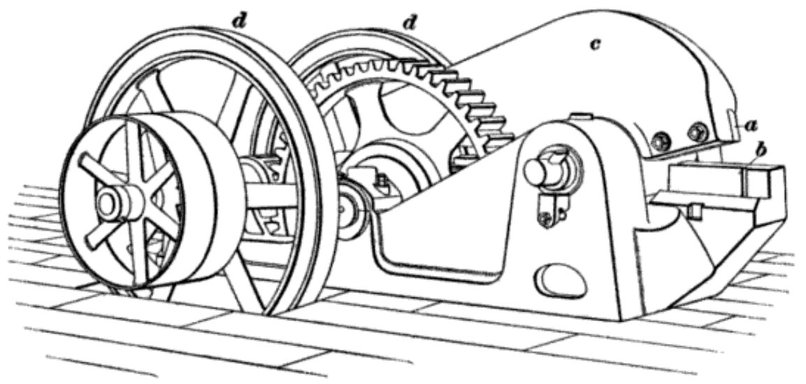 Key: "The stock is cut off between the shear blades a, b, the lower one of which is stationary and the other is attached to the short end of the lever c, the long end being moved by a crank or a cam. In the shear shown, two flywheels d, d are placed on the main driving shaft, so that their inertia will assist in operating the shear and enable it to cut heavier stock..."